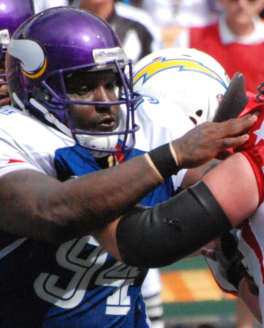 en:2009 Pro Bowl: Defensive tackle Pat Williams (NFC) goes after AFC running back Ronnie Brown.